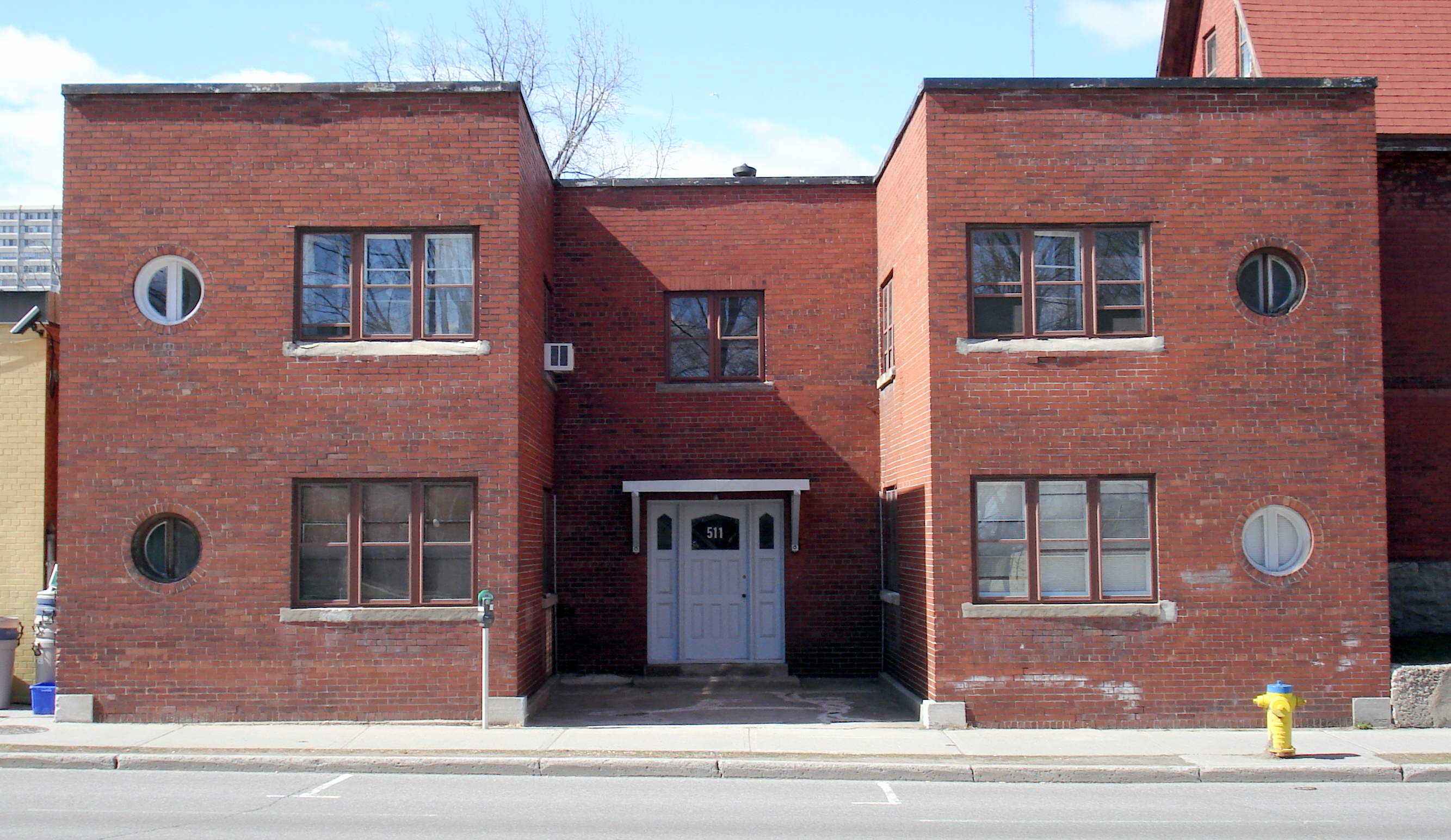 The apartment on Somerset Street in Ottawa, Canada inhabited by Soviet spy Igor Gouzenko in 1945.